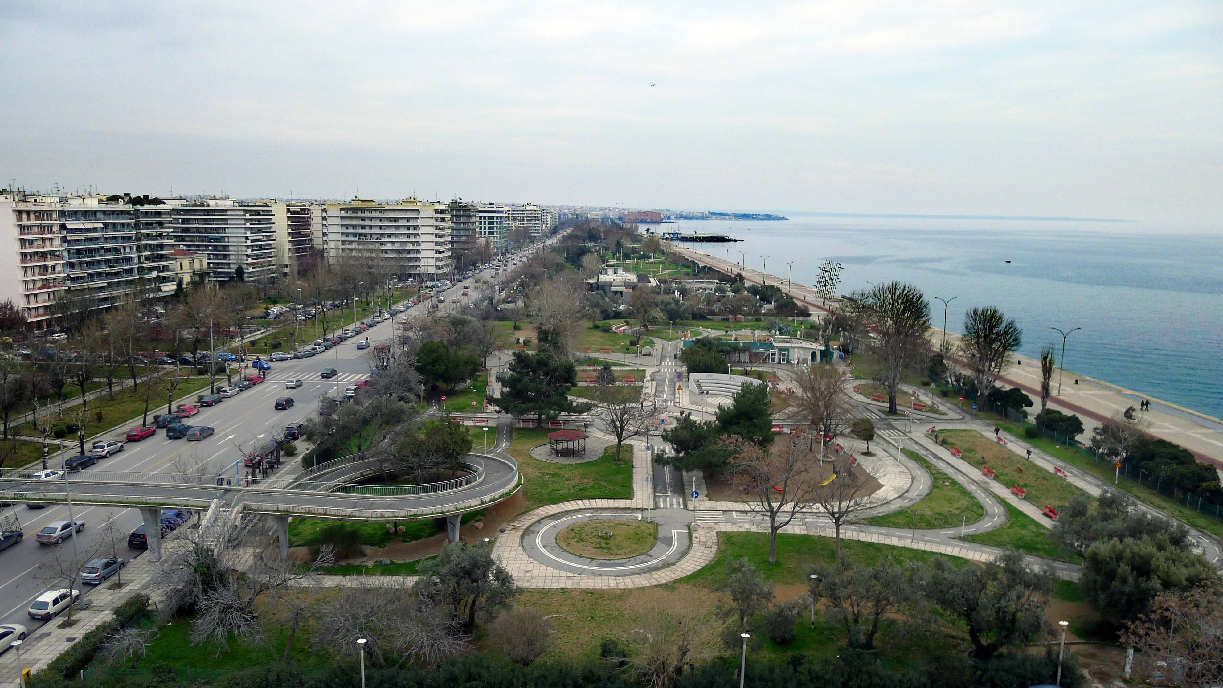 Seafront of Thessaloniki, 2011